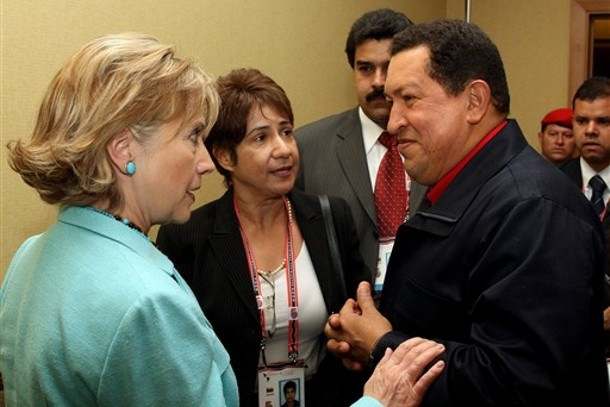 Secretary of State Hillary Clinton and President Hugo Chavez have a brief conversation of exchanging ambassador at the Summit of the Americas in Trinidad & Tobago.